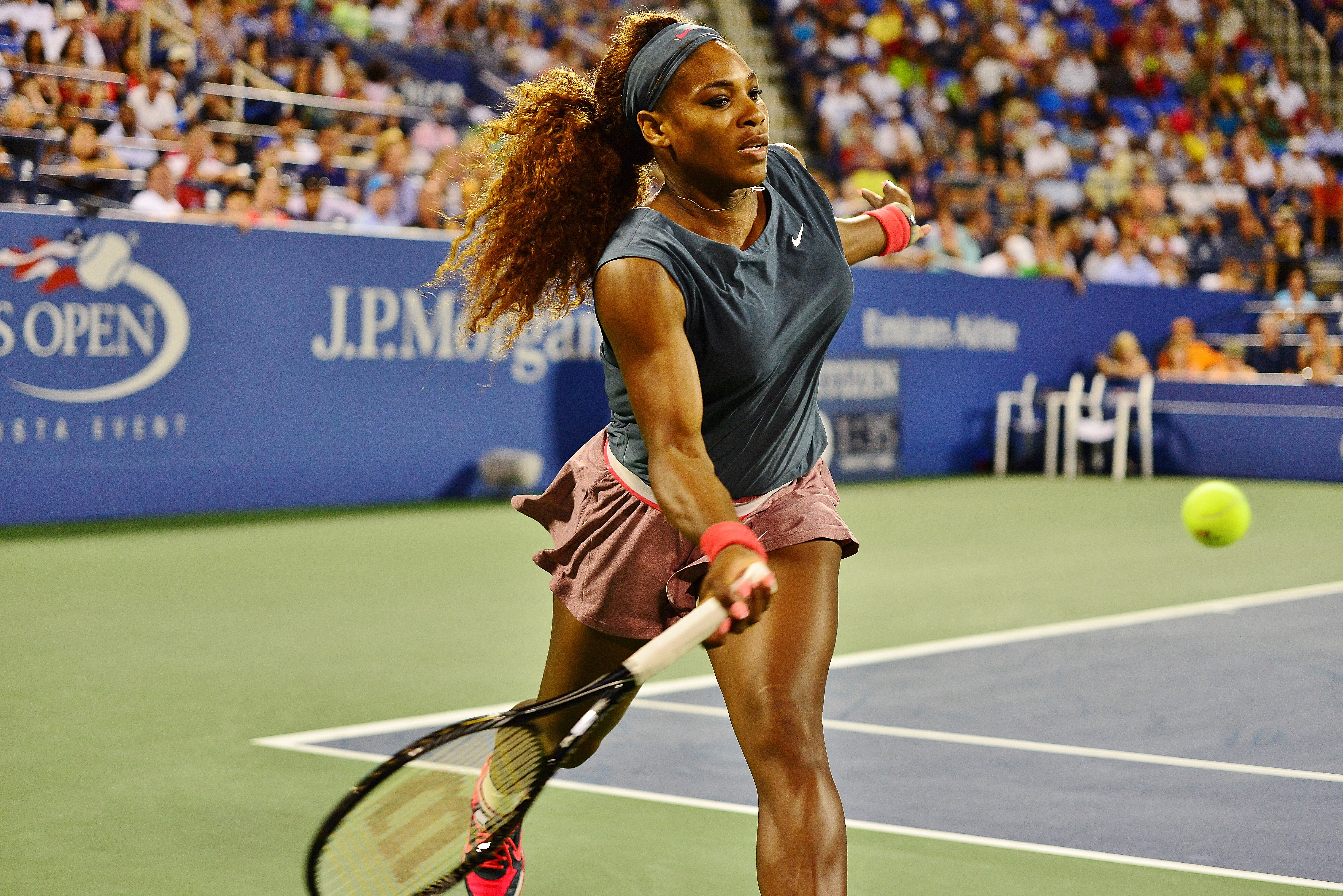 1st round doubles action from the Women's draw at the 2013 US Open. Serena and Venus Williams defeated Silvia Soler-Espinosa and Carla Suarez Navarro; 6-7(5), 6-0, 6-3